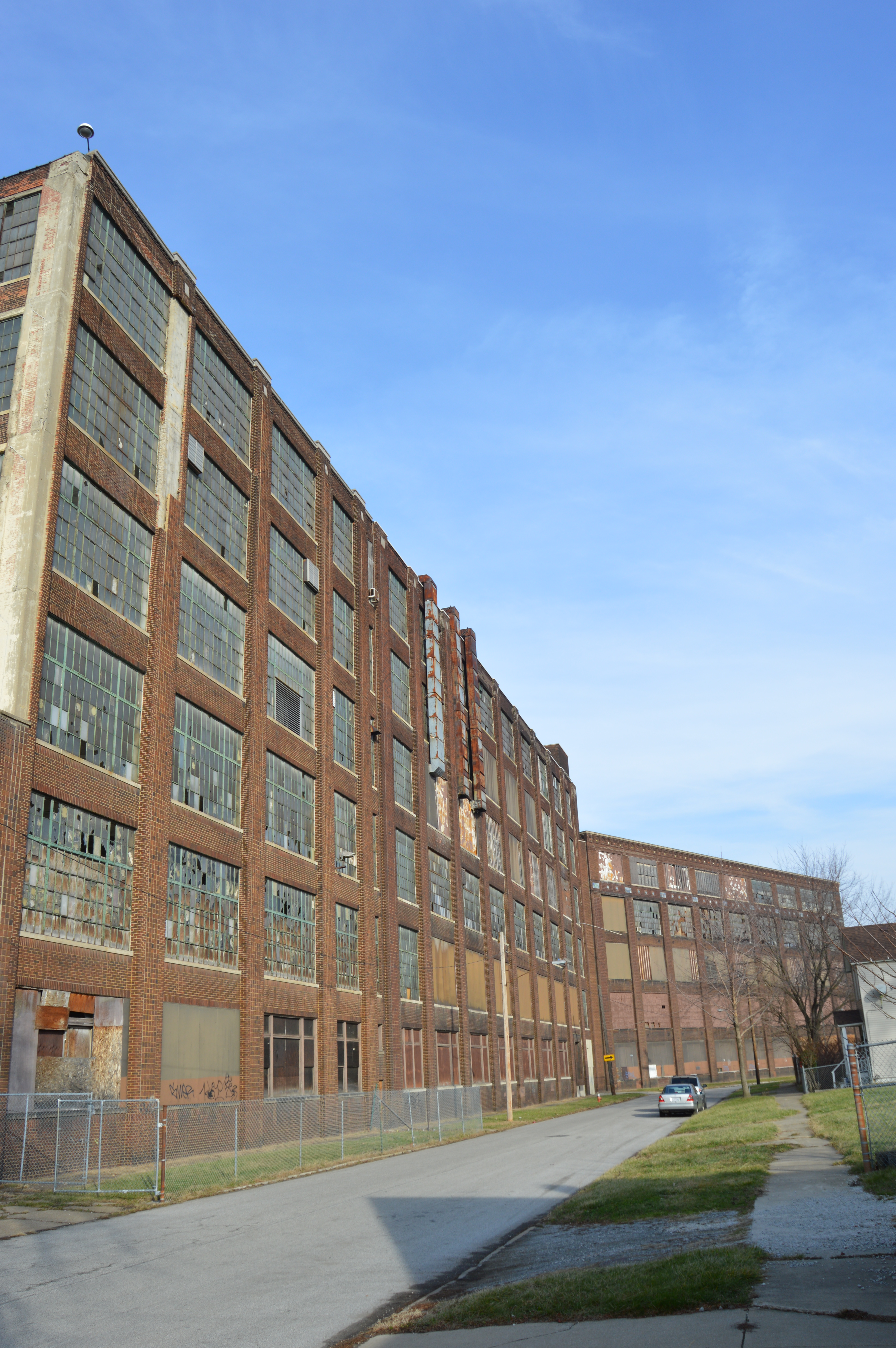 Southern side of the abandoned Richman Brothers Company factory located at 1600 E. 55th Street in Cleveland, Ohio, United States. Built in 1916, it is listed on the National Register of Historic Places.